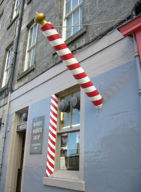 Barber's pole, Drummond Street Once a common sight, but now a rarity, this shop has retained its barber's pole, symbolising the white bandages and blood from the time when barber-surgeons performed amputations.